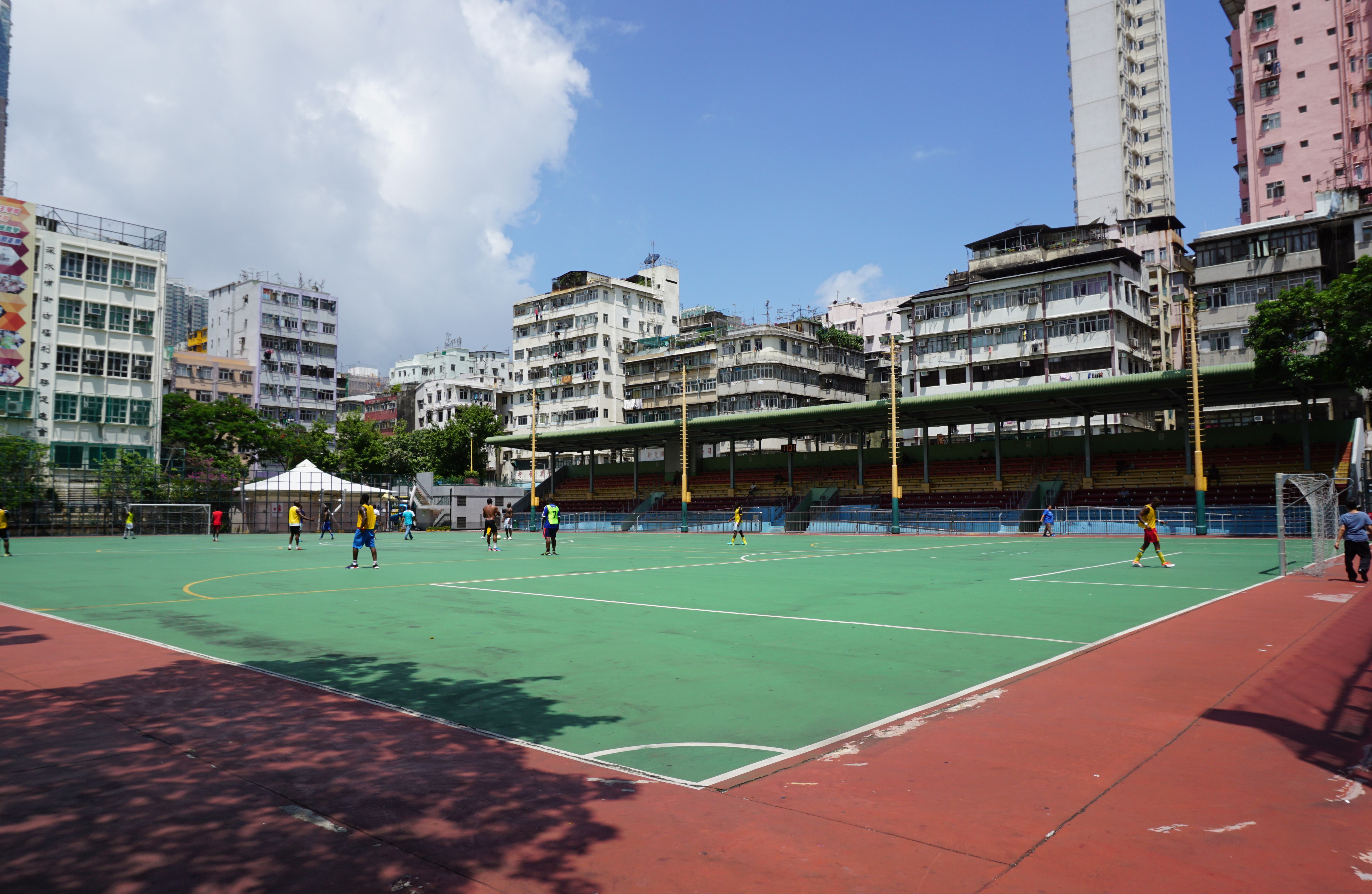 Maple Street Playground in Sham Shui Po, Hong Kong.